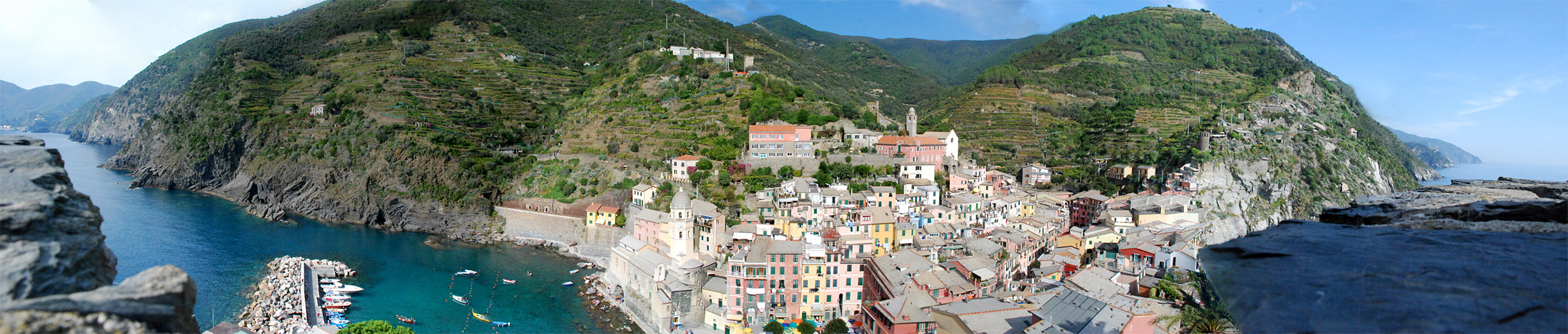 Panoramic image comprised of ~5 photographs taken while on vacation.